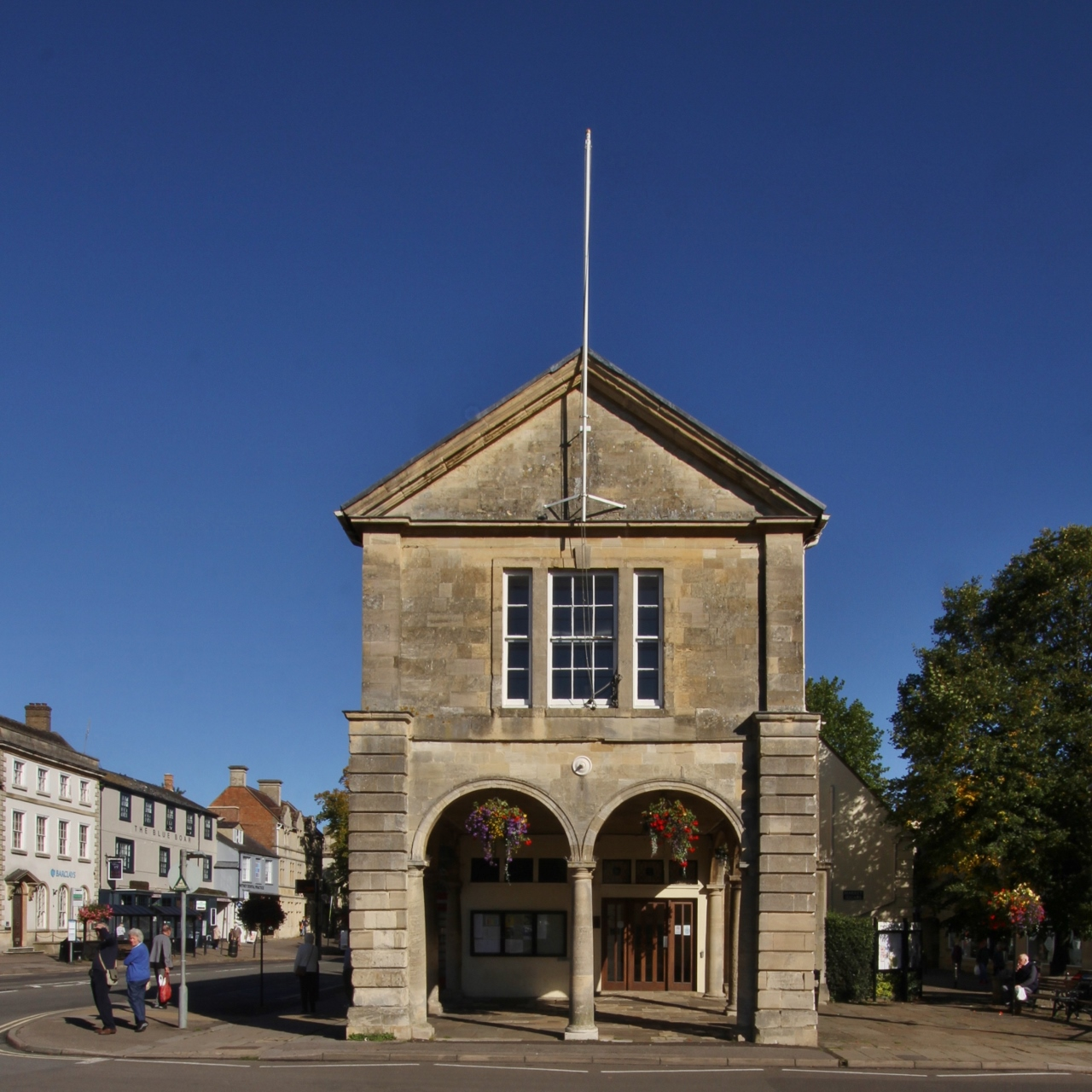 The Town Hall, Market Square, Witney, West Oxfordshire, seen from the south